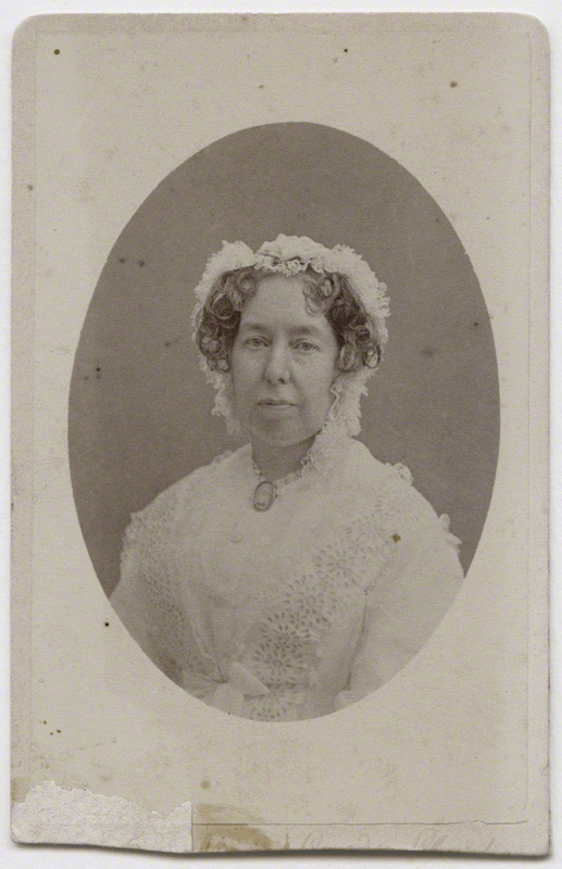 Mary Victoria Cowden Clarke (nee Novello), ca. 1870s